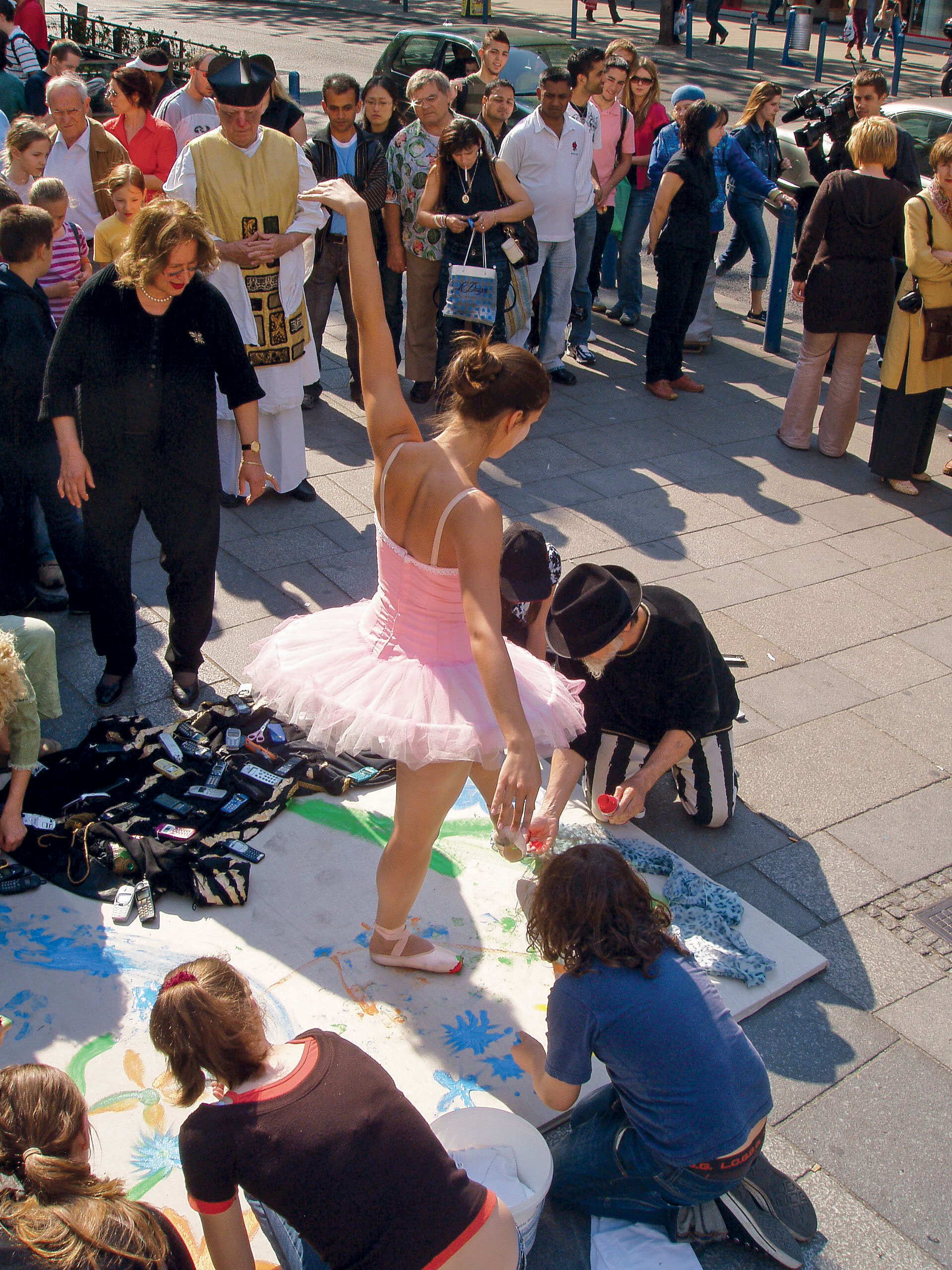 Lubo Kristek: Happening Requiem for Mobile Telephones, Mariahilfer Straße, Vienna, 26 April 2007